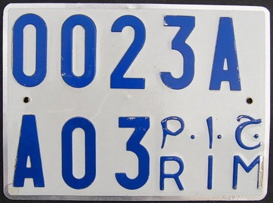 Mauritania license plate old style